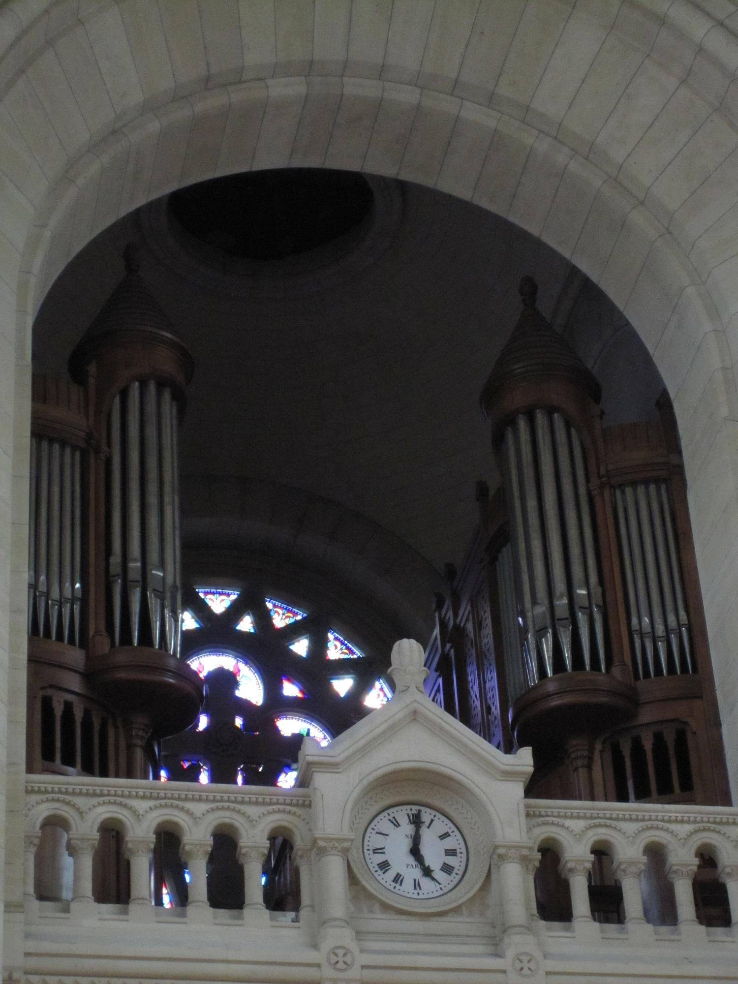 Cavaillé-Coll organ of Notre-Dame-de-la-Croix church of Ménilmontant in Paris